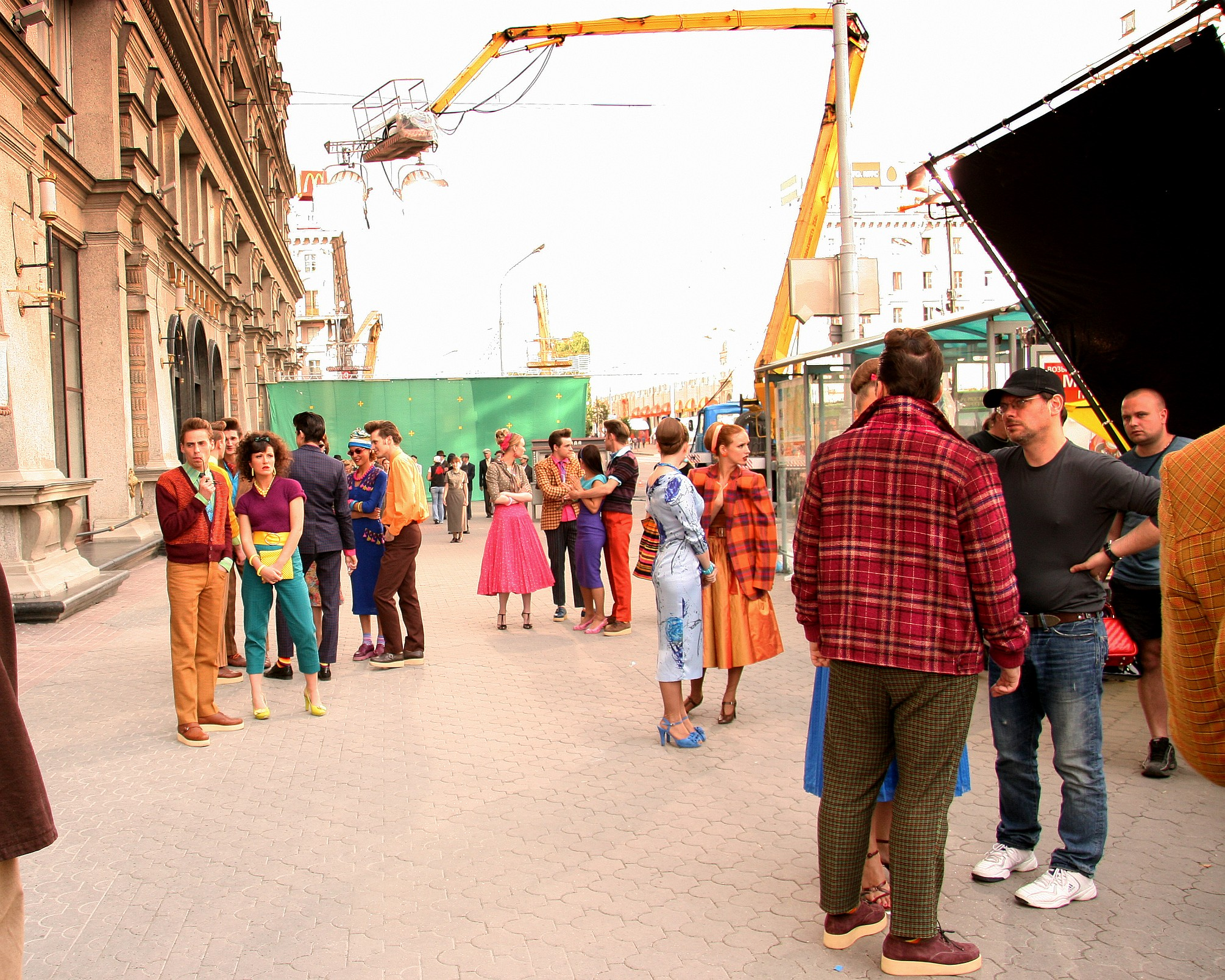 Production of "Stilyagi" by Valery Todorovsky. Minsk. 22 June 2007